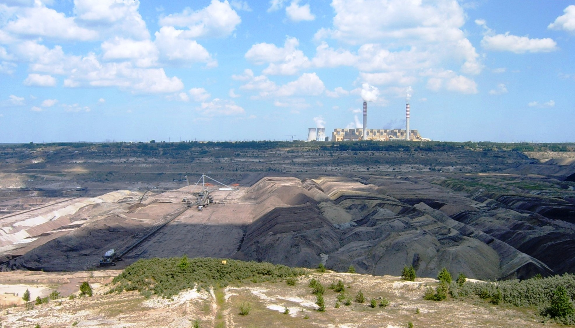 Lignite mine Bełchatów, Poland